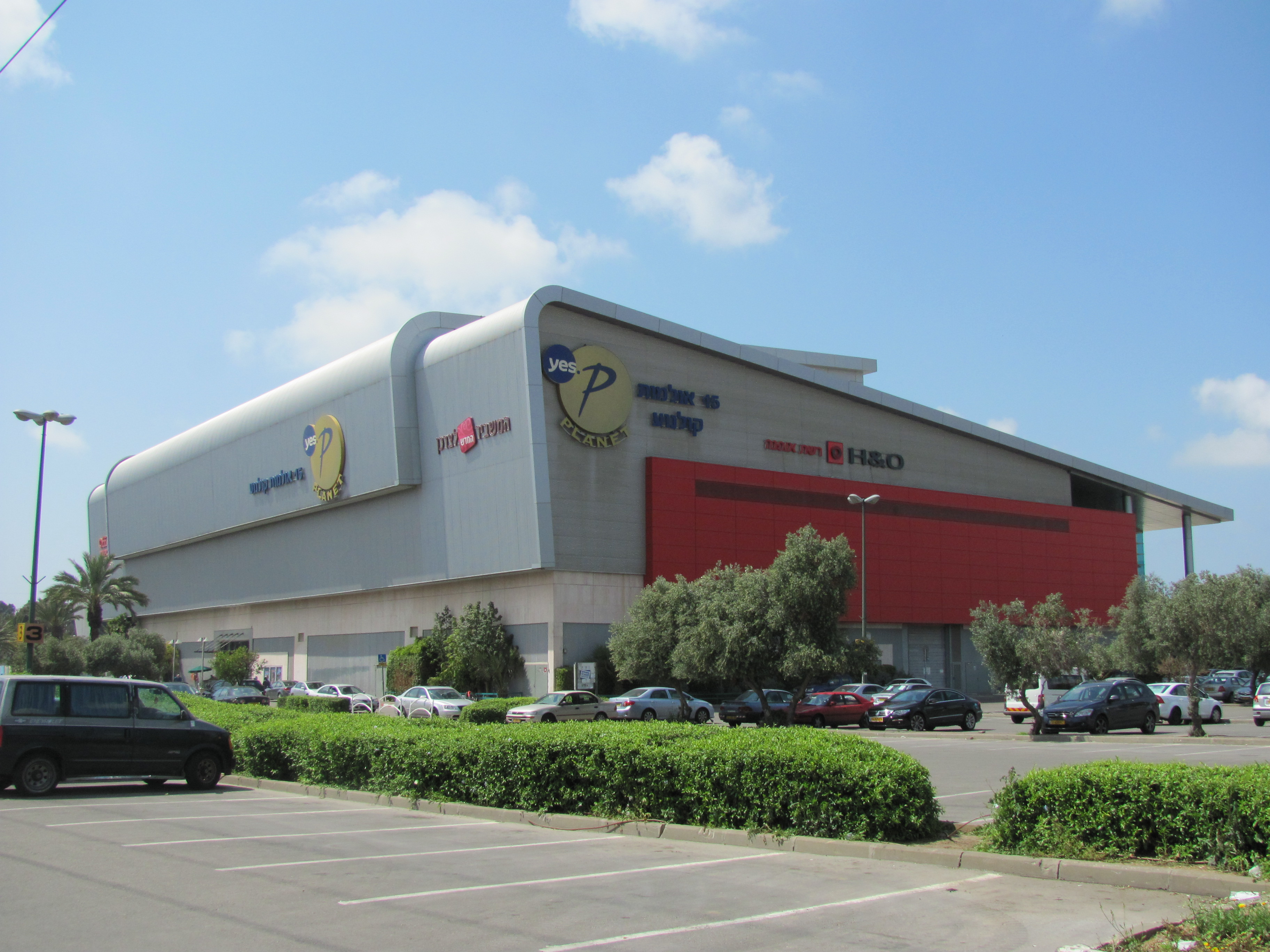 Yes Planet cinema in Ayalon mall in Ramat Gan, Israel.